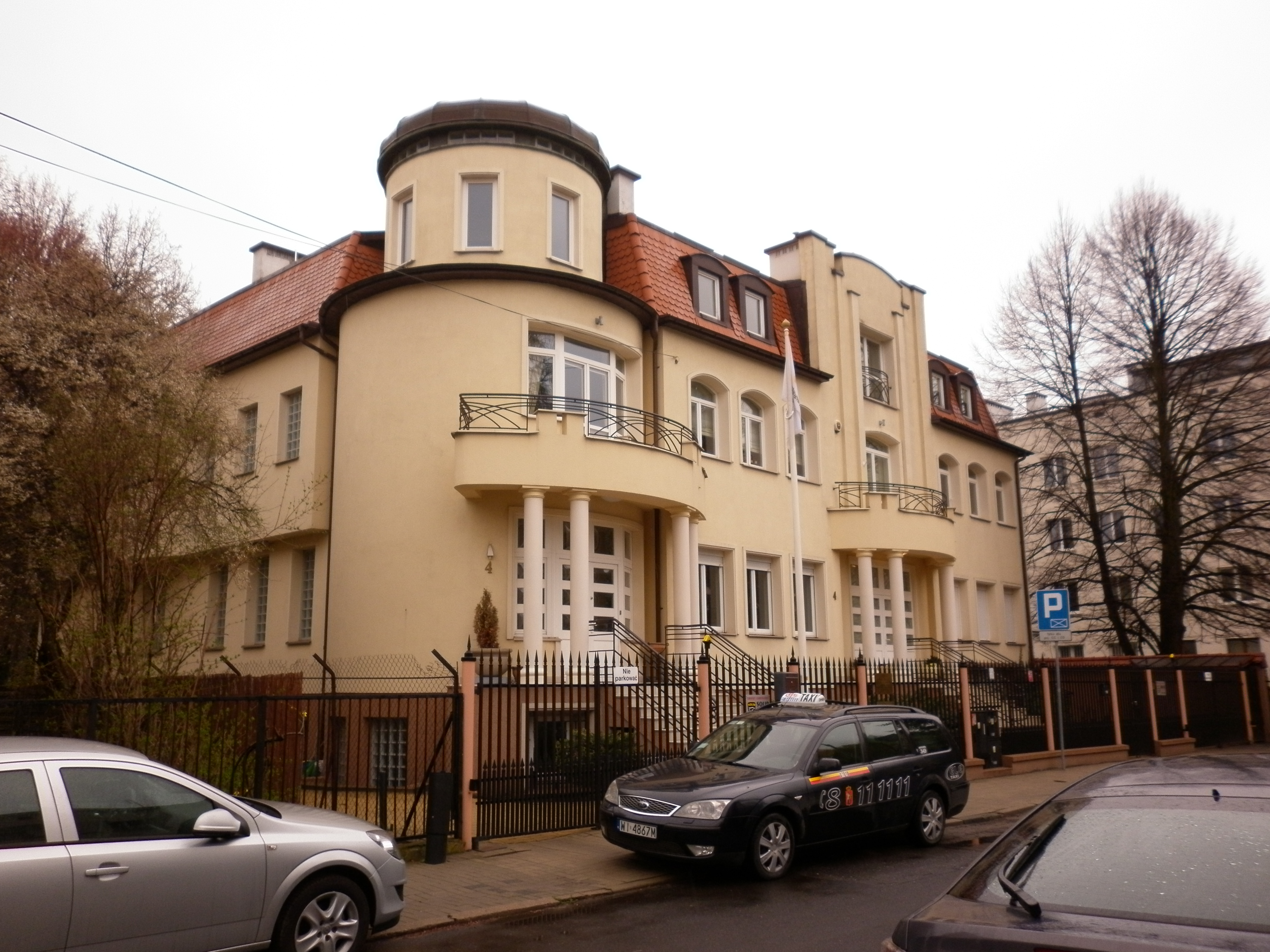 The Cypriot embassyin Warsaw, Poland